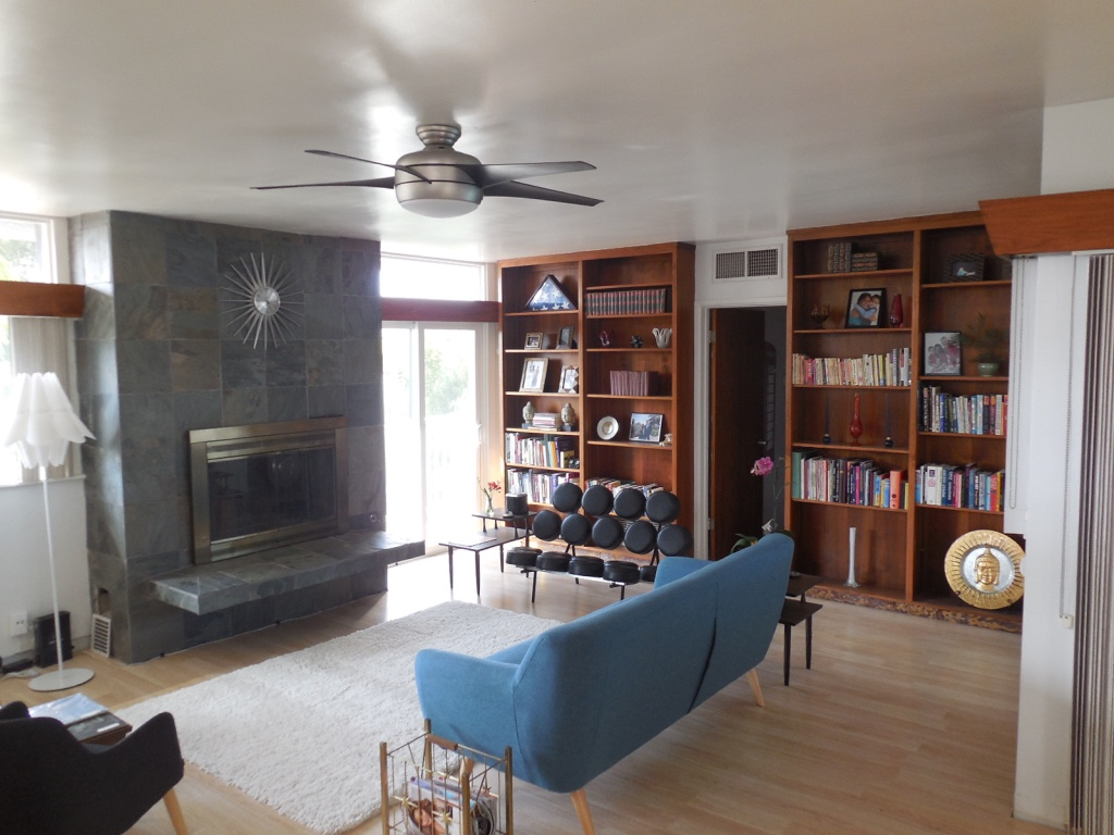 Living Room of the Nielsen Pool House